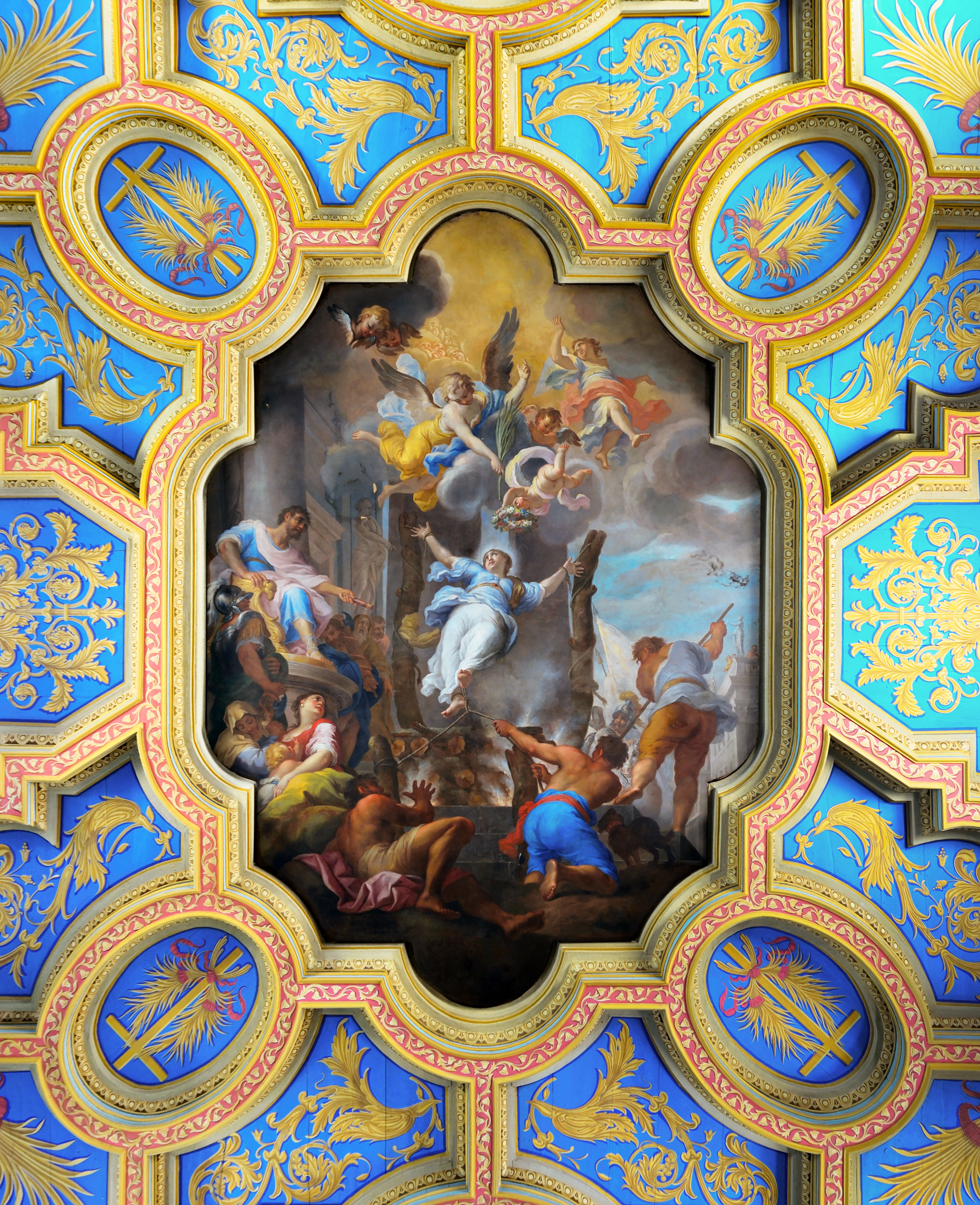 Basilica di Sant'Anastasia al Palatino (Rome) - Ceiling